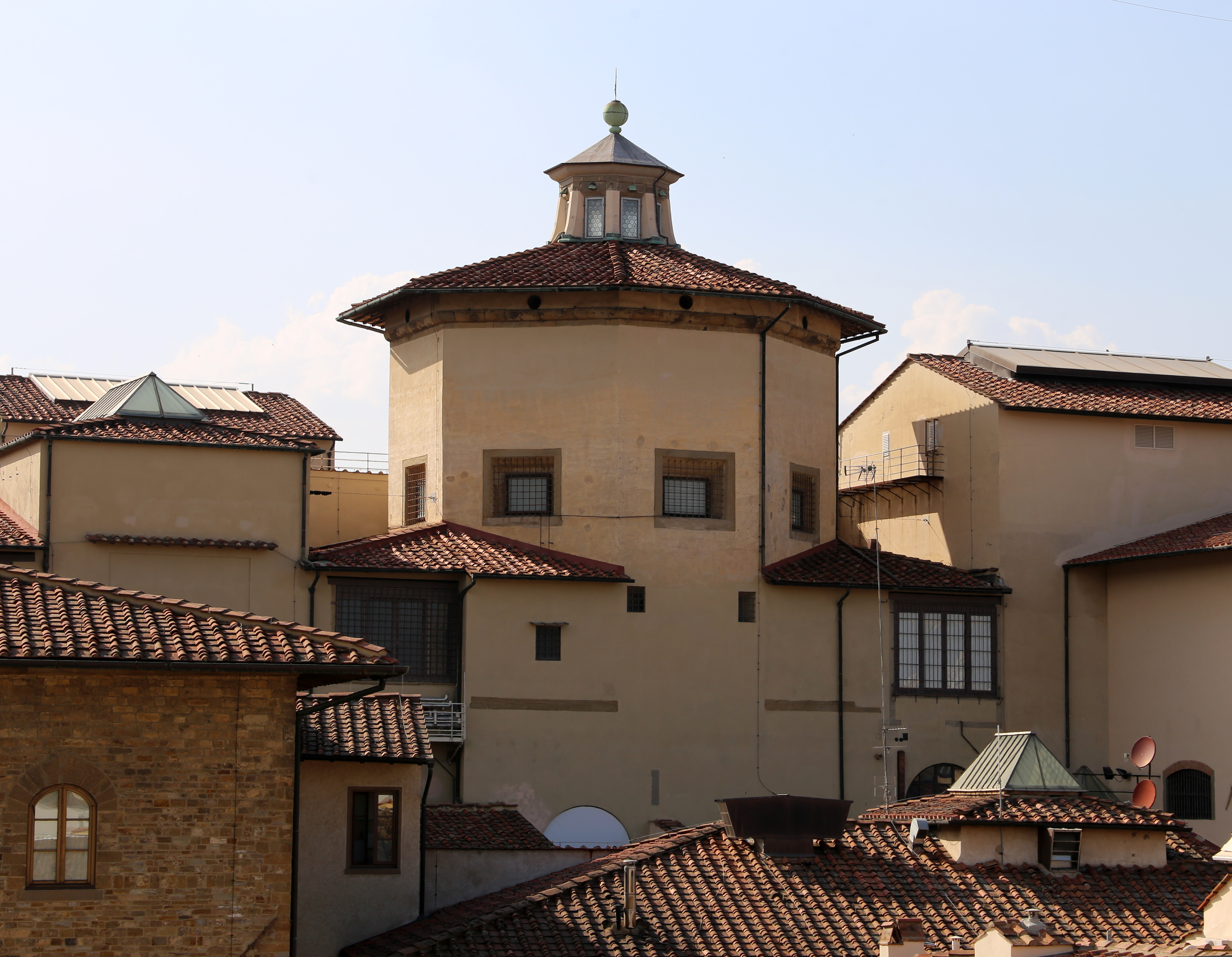 Palazzo della Camera di Commercio (Florence) - View from